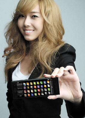 Jessica in LG new chocolate phone advertisement.